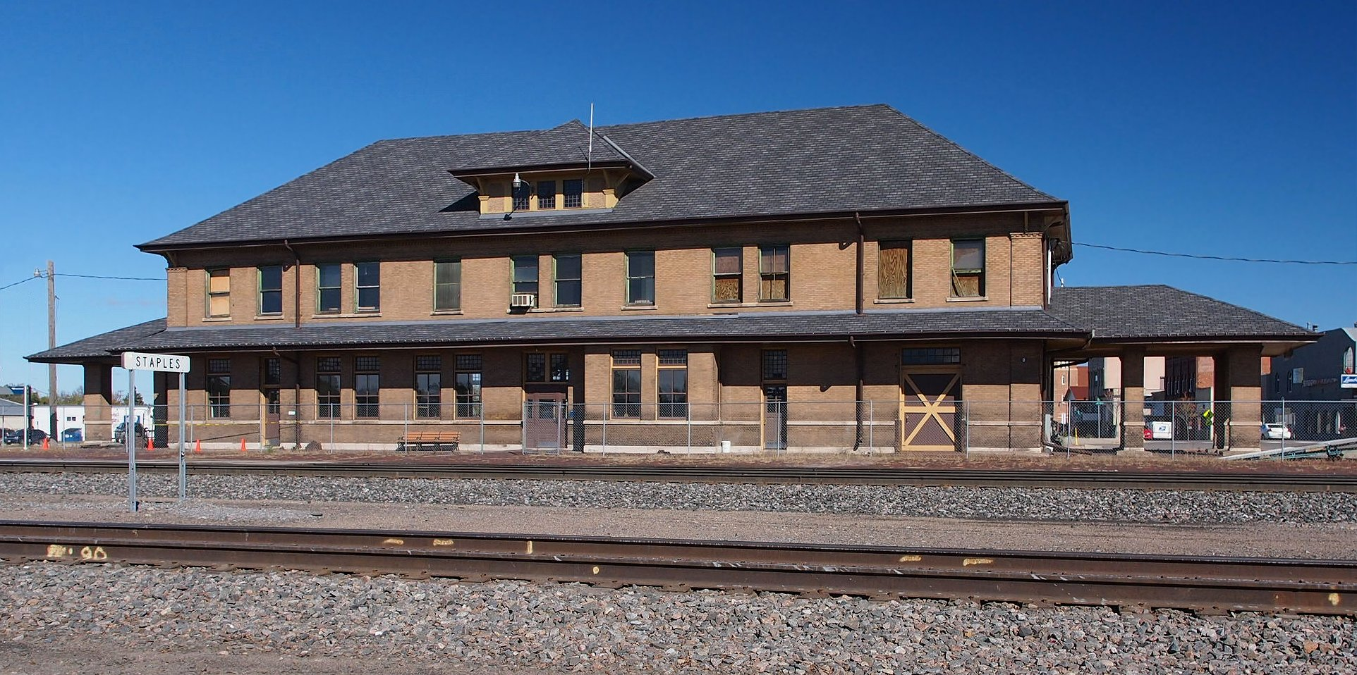 Staples Depot (Northern Pacific Railway Depot), Staples, Minnesota, USA. Viewed from the south-southeast.